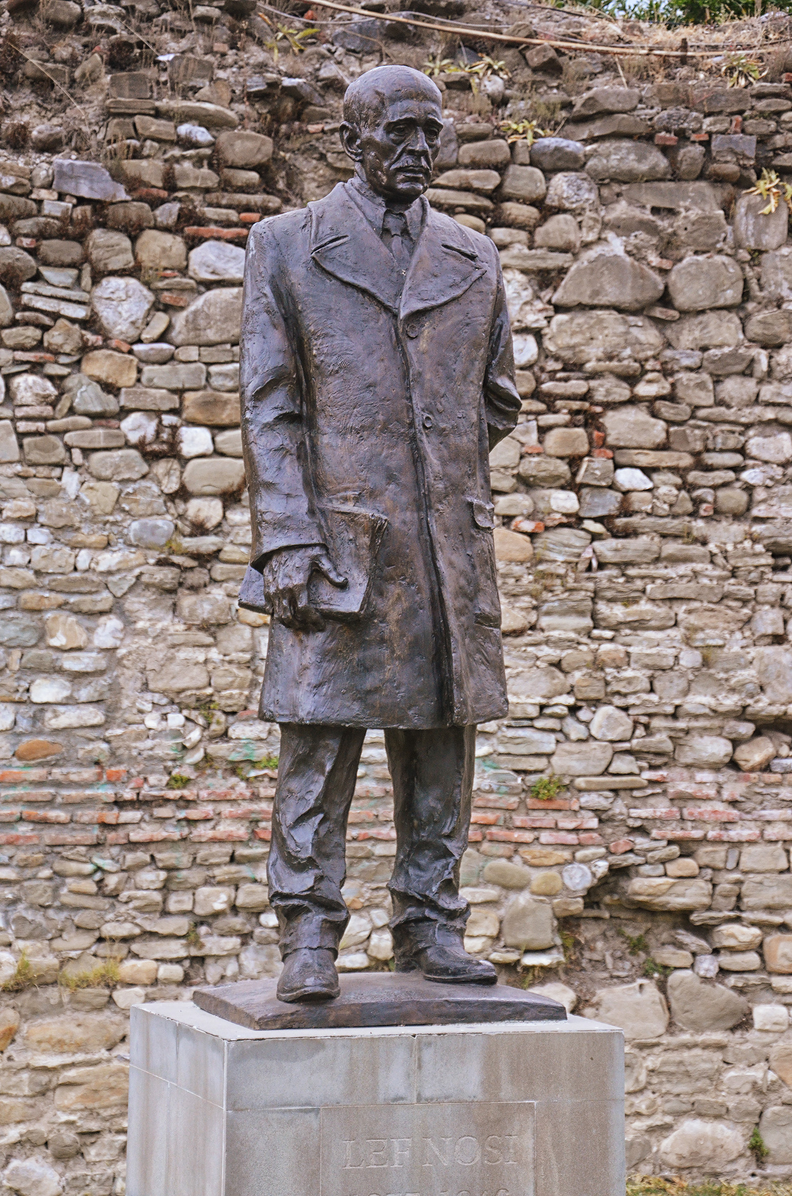 The statue of Lef Nosi in Elbasan, Albania